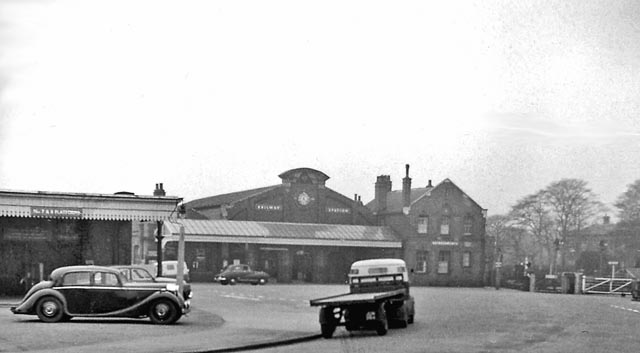 Bridlington Railway Station entrance, Bridlington, East Riding of Yorkshire, England. View northward, to station entrance; ex-NER Selby/Hull - Driffield - Filey - Scarborough lines. (Selby - Driffield was closed 14/6/65).